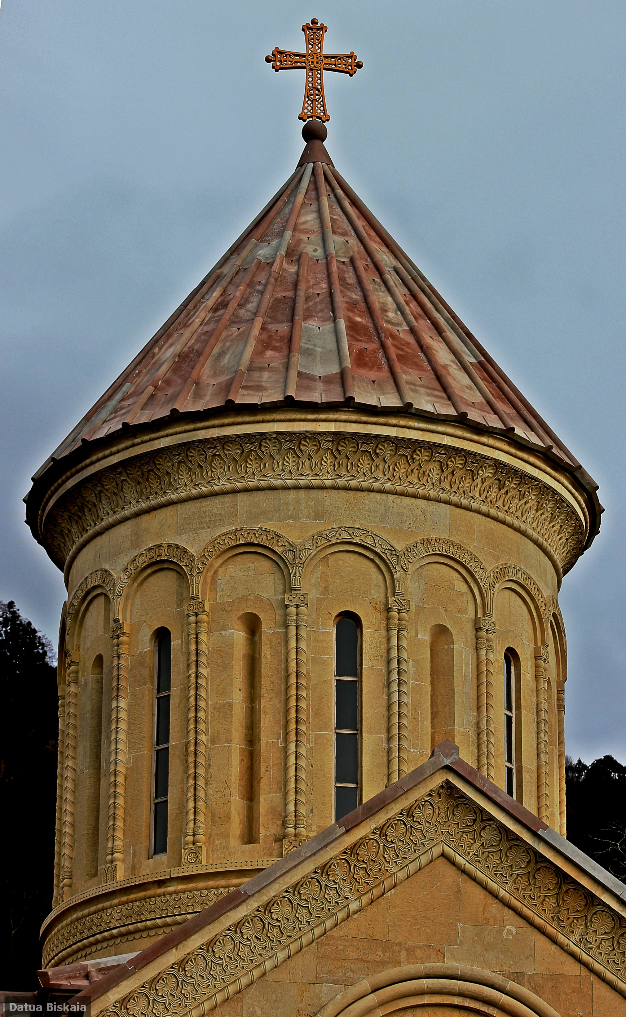 Sarpi Church, Lazeti, Georgia Sarp köyü kilisesi, Gürcistan